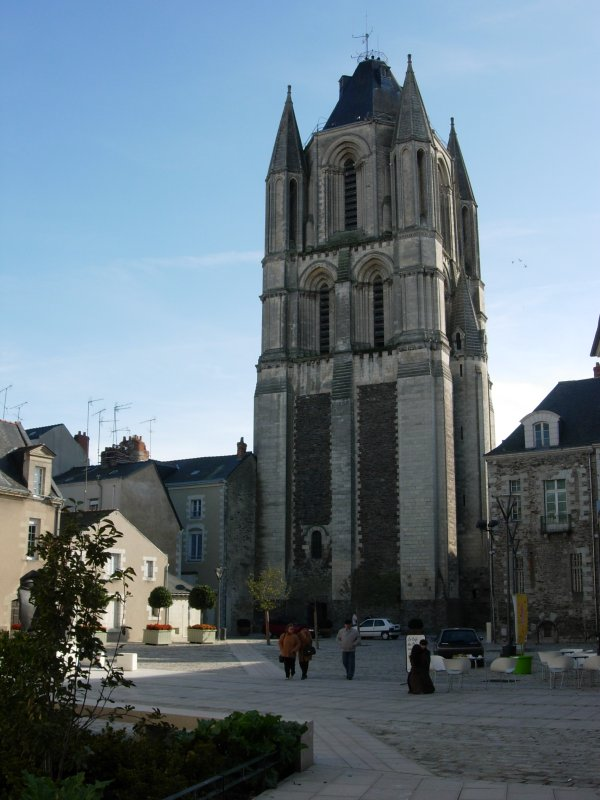 The Saint-Aubin tower in Angers, Maine-et-Loire, Pays de la Loire, France.